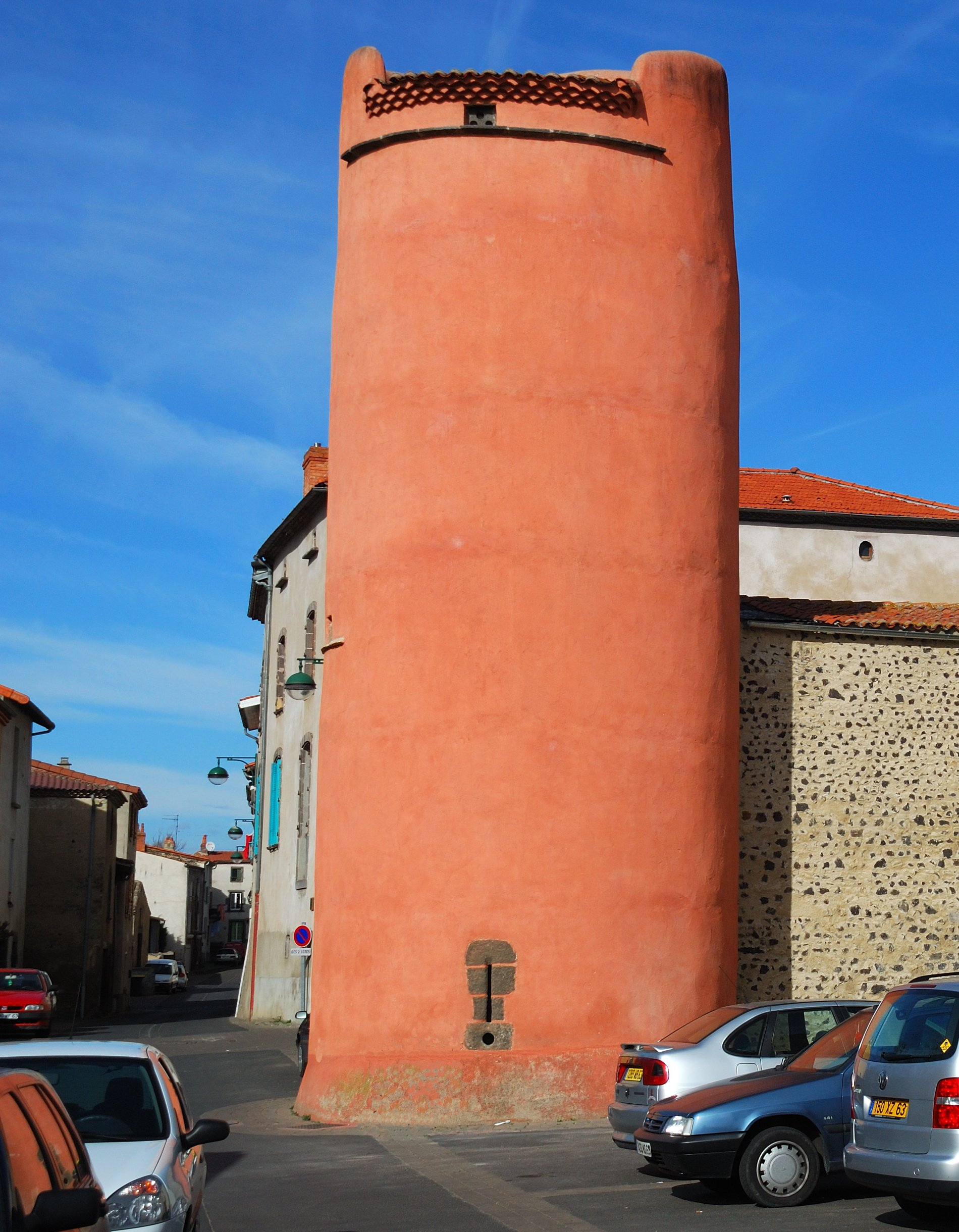 Dallet : tower, remain of the protective wall (Puy-de-Dôme, France).